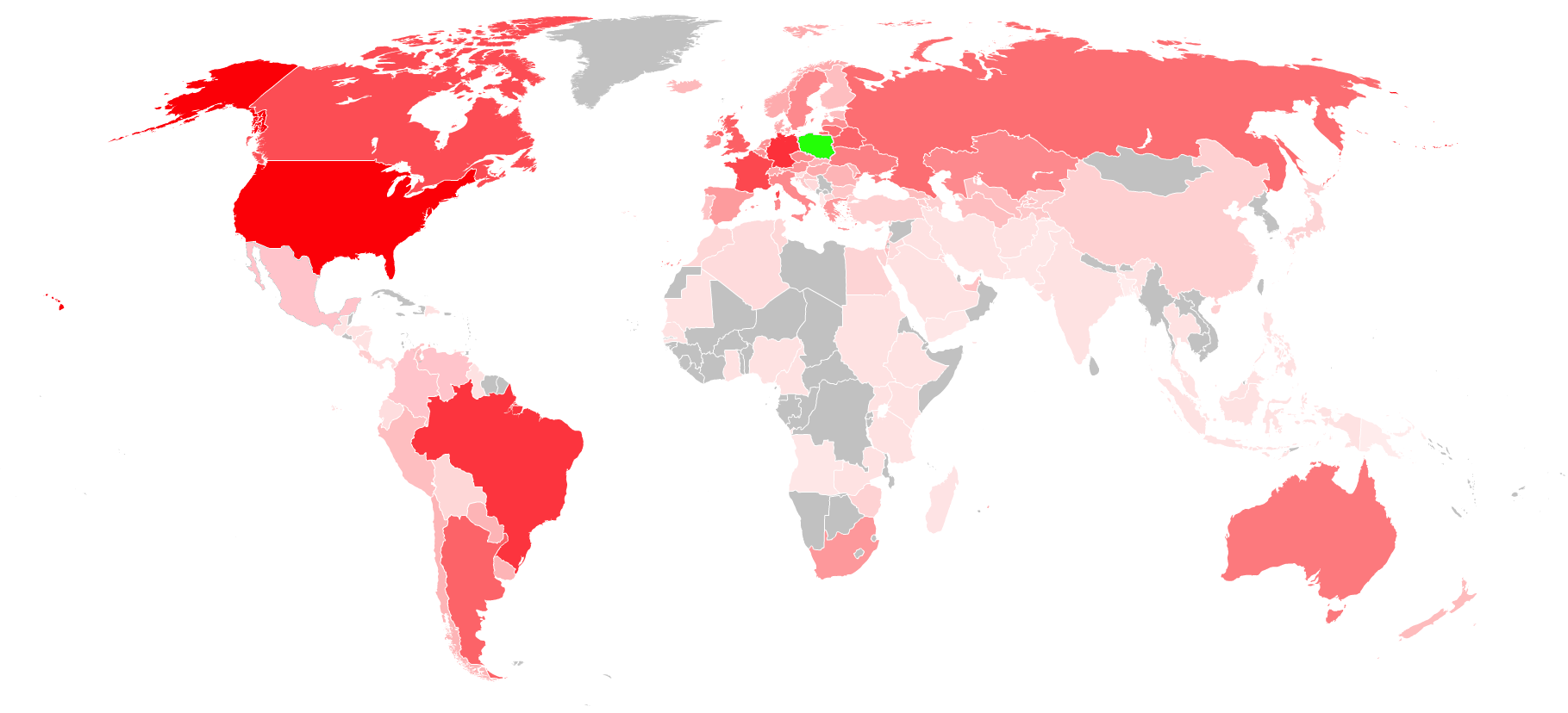 Distribution of emigration of Poles.